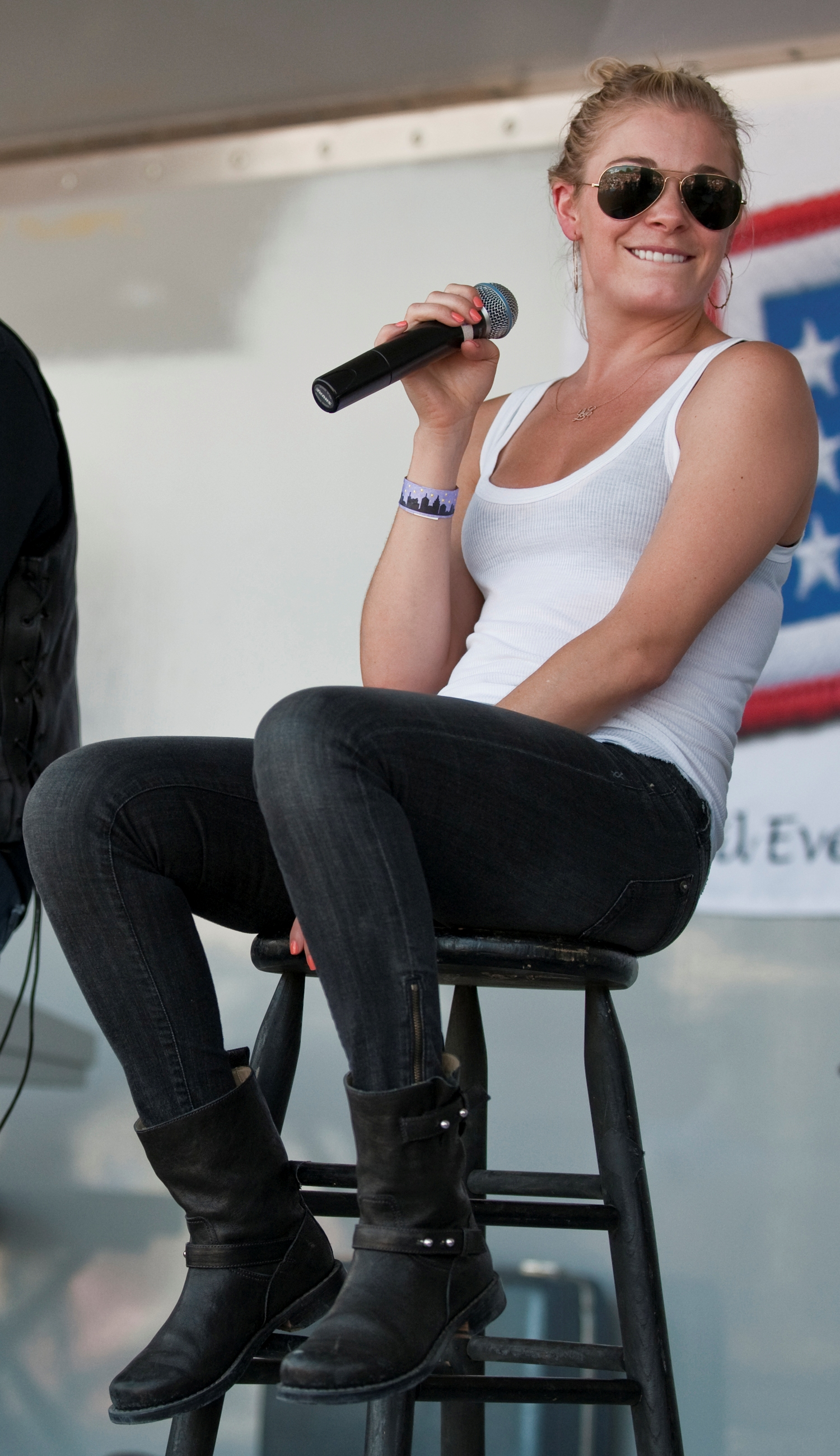 Singer LeAnn Rimes performs on stage during the Academy of Country Music's USO concert at Nellis Air Force Base, Nev., April 17, 2010.